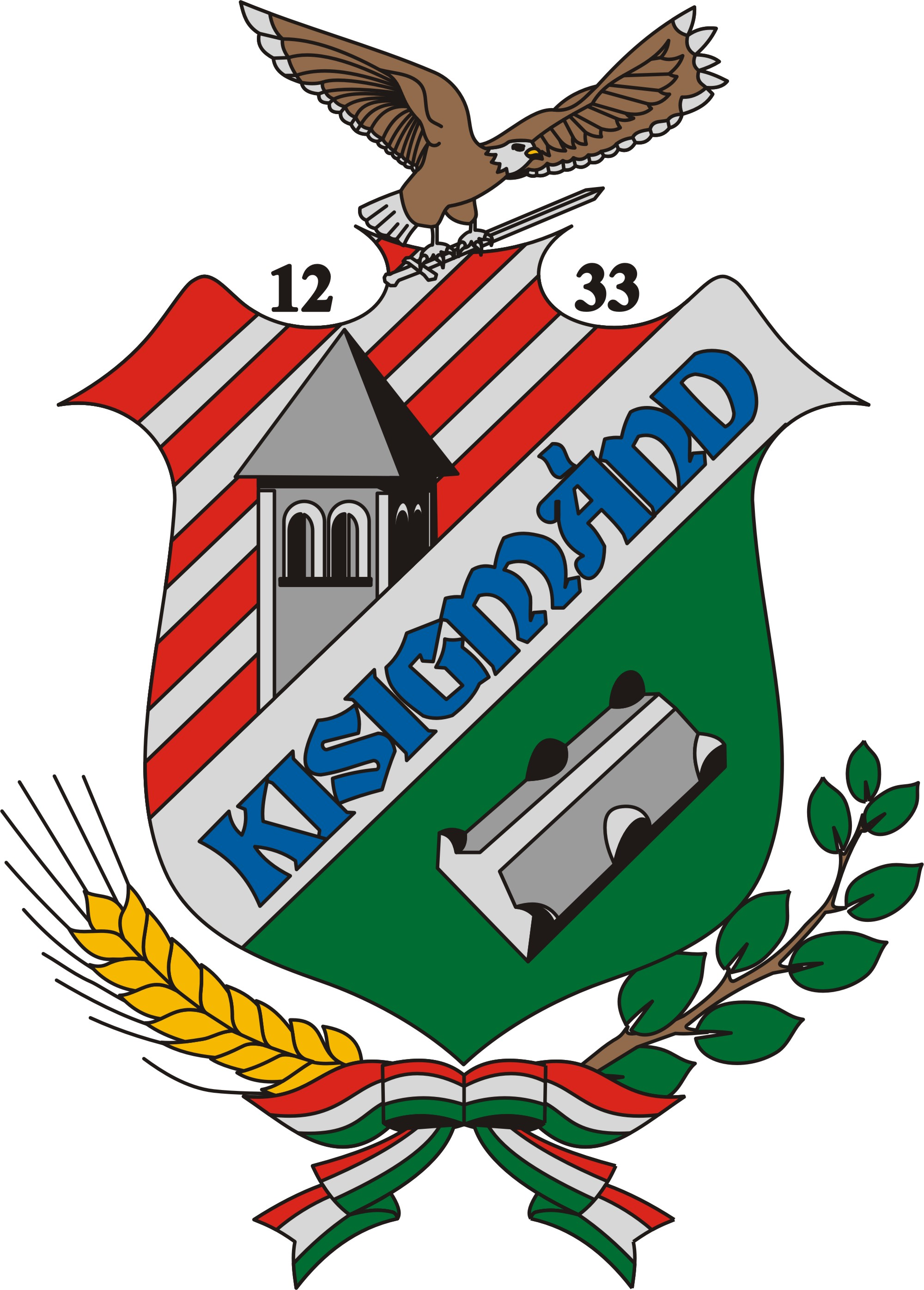 Coat of arms of Kisigmánd, Hungary